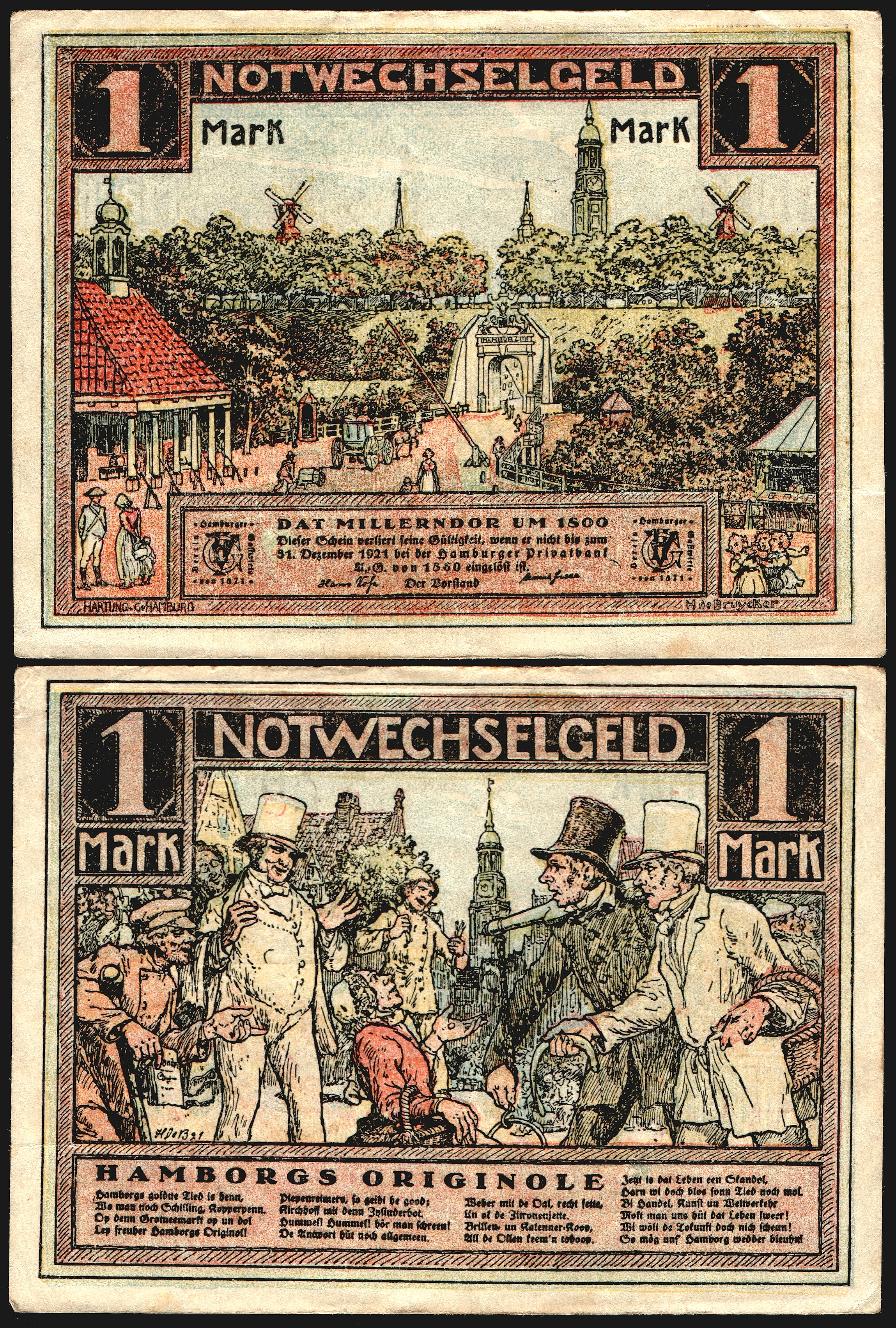 1 Mark Notgeld banknote of Hamburg (1921), size: 70 mm x 95 mm.